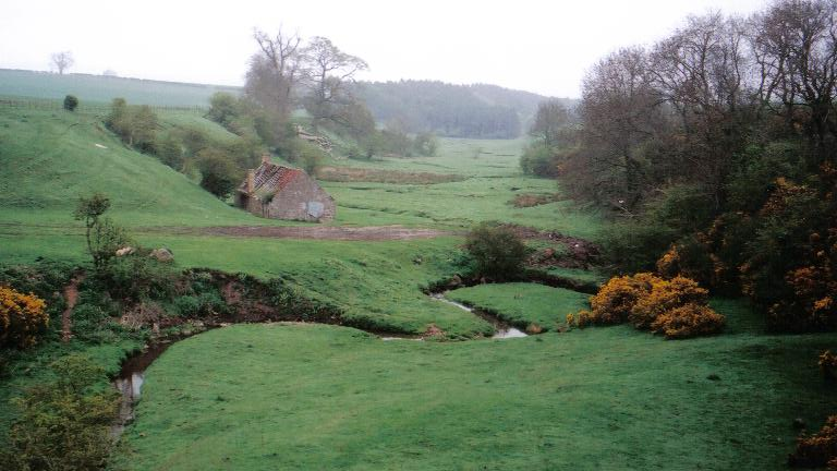 Extant ruins at Cessford Burn near Morebattle in old Roxburghshire (now the Scottish Borders) Scotland looking to the northwest. Up on the ridge to the right are the ancient ruins of Kerr (Cessford) Castle. Link to Cessford Burn here. A moment in it's long history captured by John M Nesbit for you on May 16th 2000.